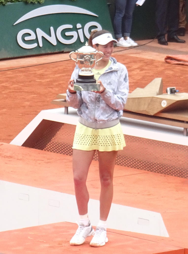 Garbiñe Muguruza won her first grand slam title at Roland Garros 2016